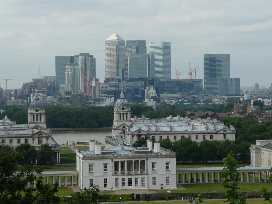 Canary Wharf